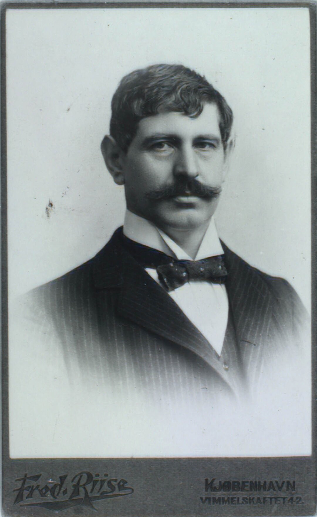 Portrait of journalist Kristian Dahl (29.03.1861-18.10.1934)